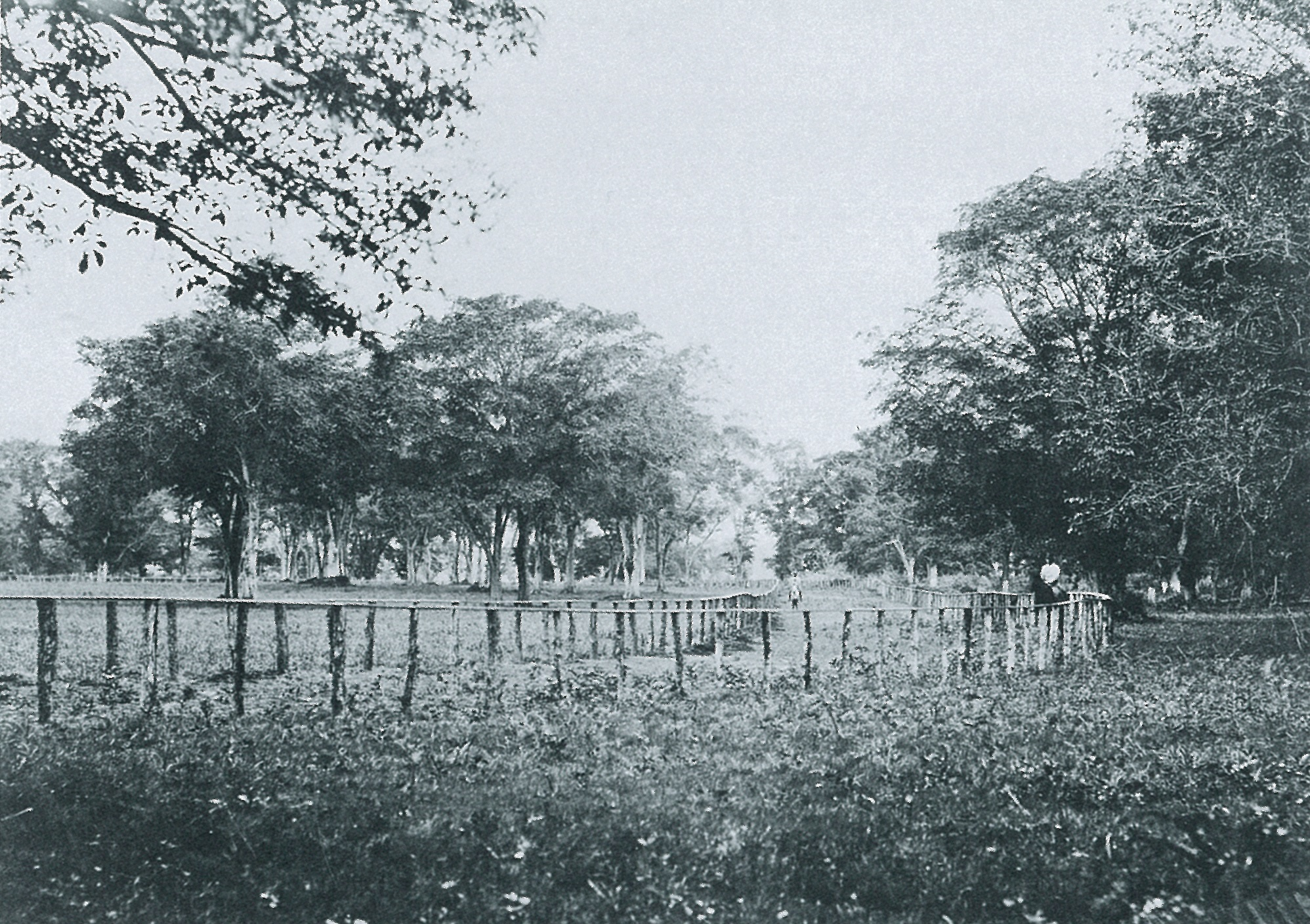 Sapporo ikushujyo Racecourse(Old Japanese House Racecourse in Sapporo)1878-1887